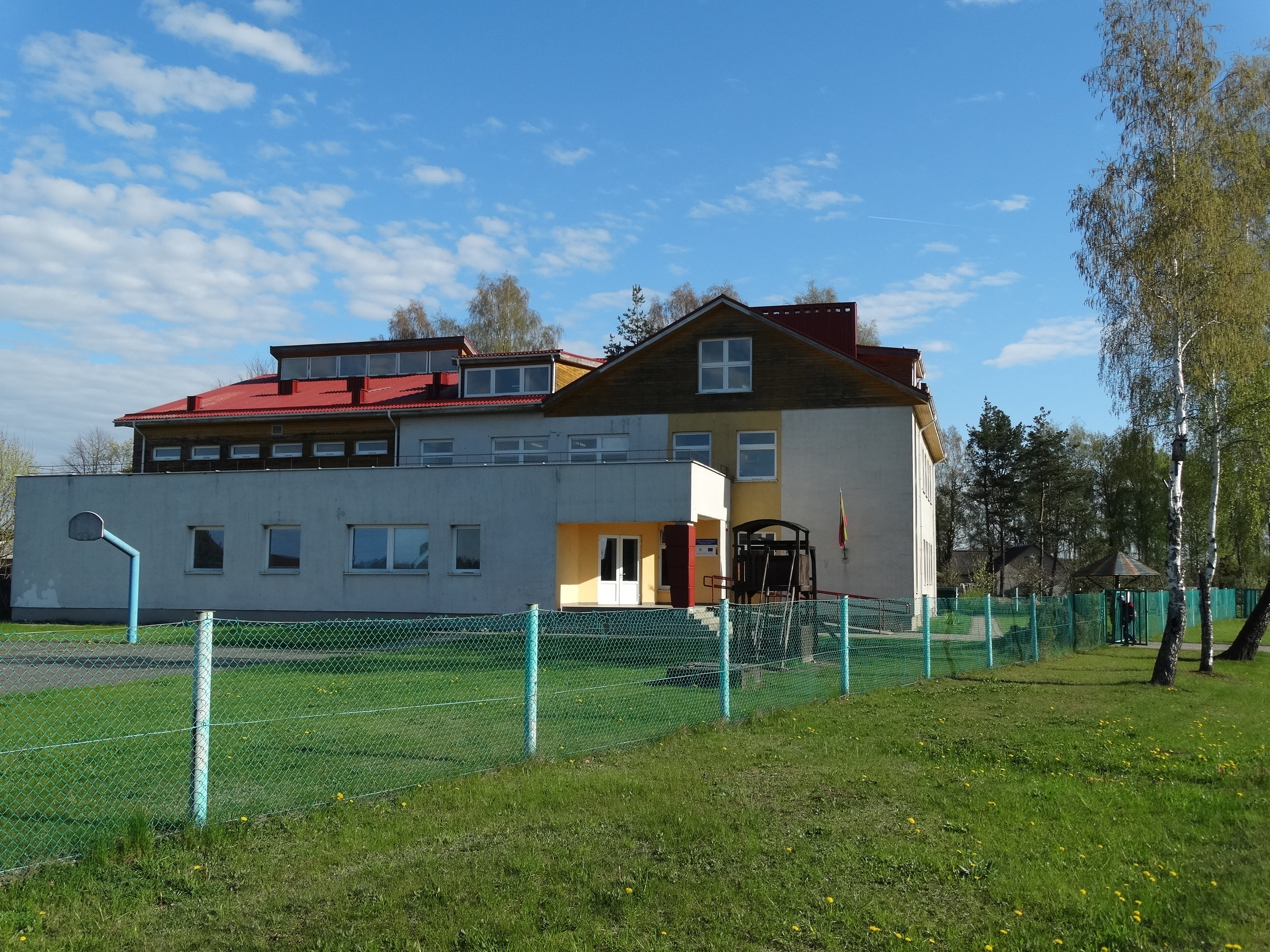 School, Čiužiakampis, Šalčininkai District, Lithuania